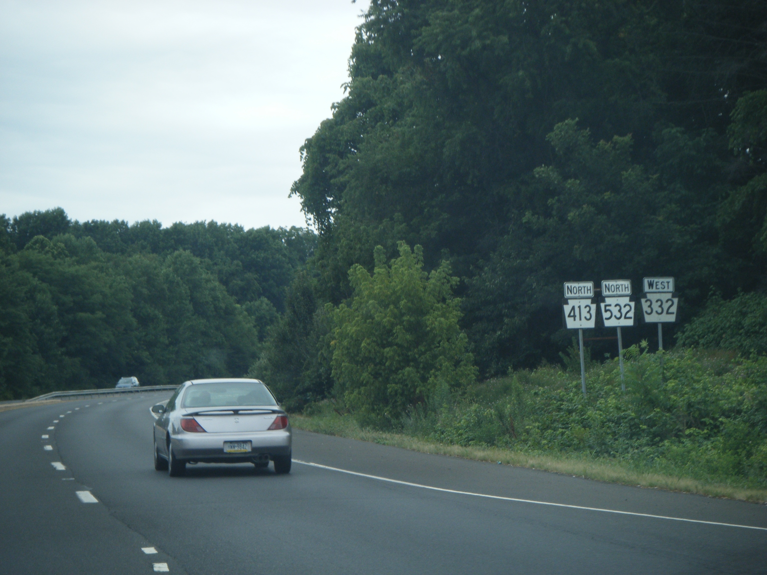 Westbound Pennsylvania Route 332/northbound Pennsylvania Route 413/northbound Pennsylvania Route 532 on the Newtown Bypass in Newtown Township, Pennsylvania.